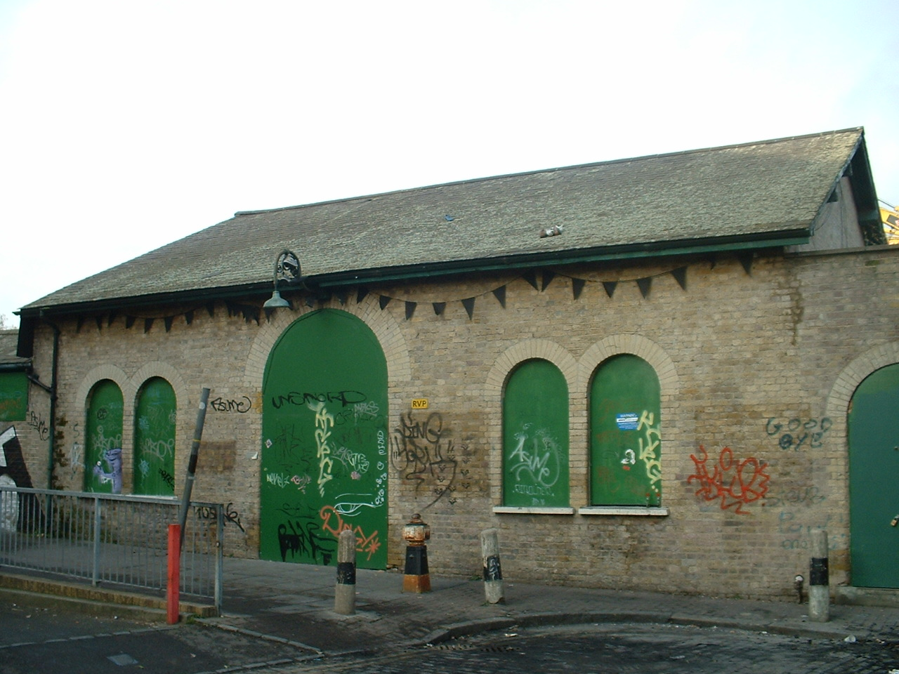 Shoreditch tube station 18 months after closure, just a couple of days after the rest of the East London line closed for refurbishment in December 2007. Note sorry state.